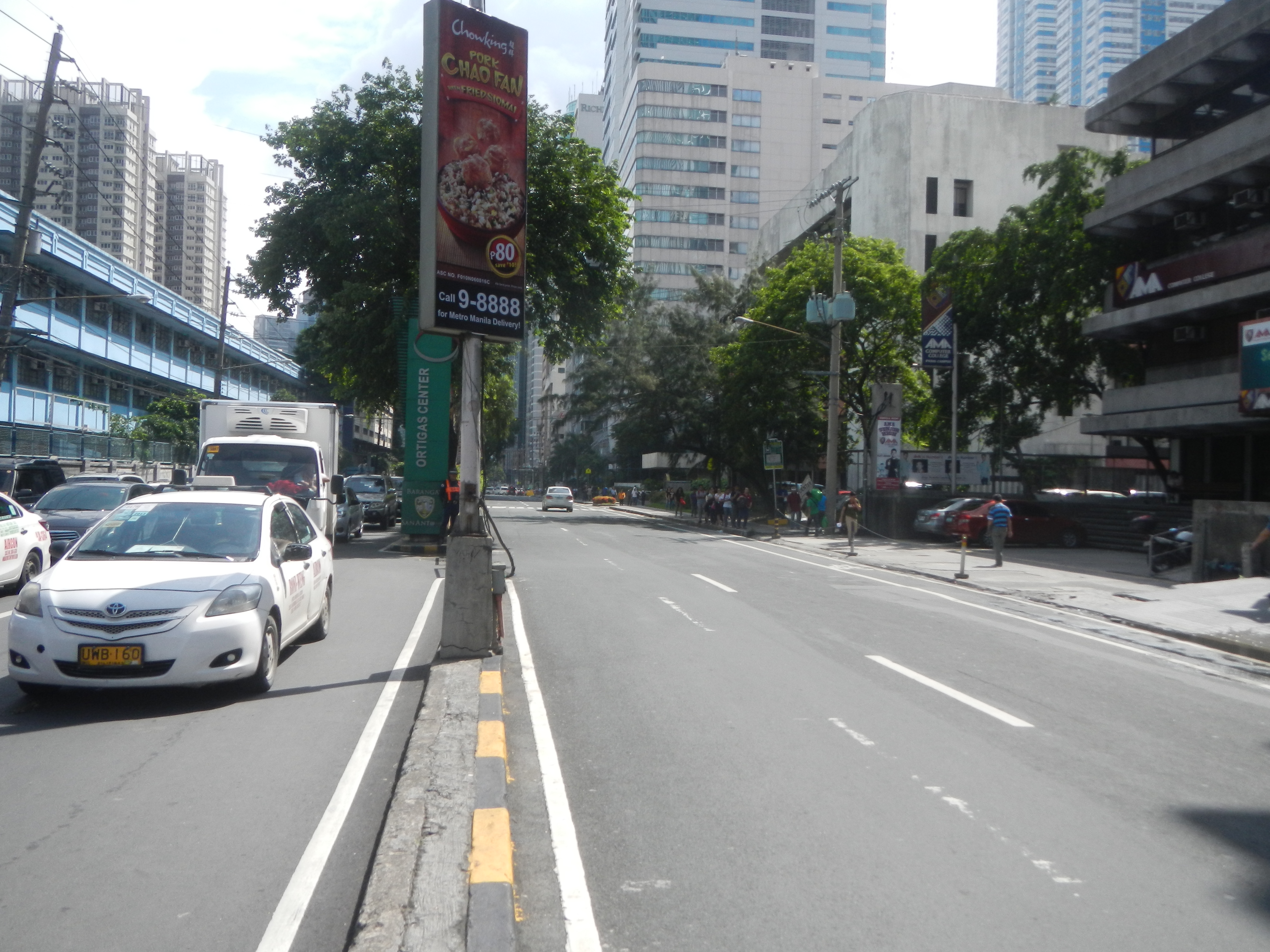 One San Miguel Avenue Lourdes School of Mandaluyong established 1959 List of barangays of Metro Manila, Barangay Wack-Wack Greenhills, Mandaluyong City Ortigas Center along San Miguel Avenue One San Miguel Avenue Mandaluyong City along Shaw Boulevard Radial Road 5 Circumferential Road 5 located beside Boundary neighbor List of barangays of Metro Manila, Barangay San Antonio beside Kapitolyo, Pasig City; (Note: Judge Florentino Floro, the owner, to repeat, Donor Florentino Floro of all these photos hereby donate gratuitously, freely and unconditionally all these photos to and for Wikimedia Commons, exclusively, for public use of the public domain, and again without any condition whatsoever).